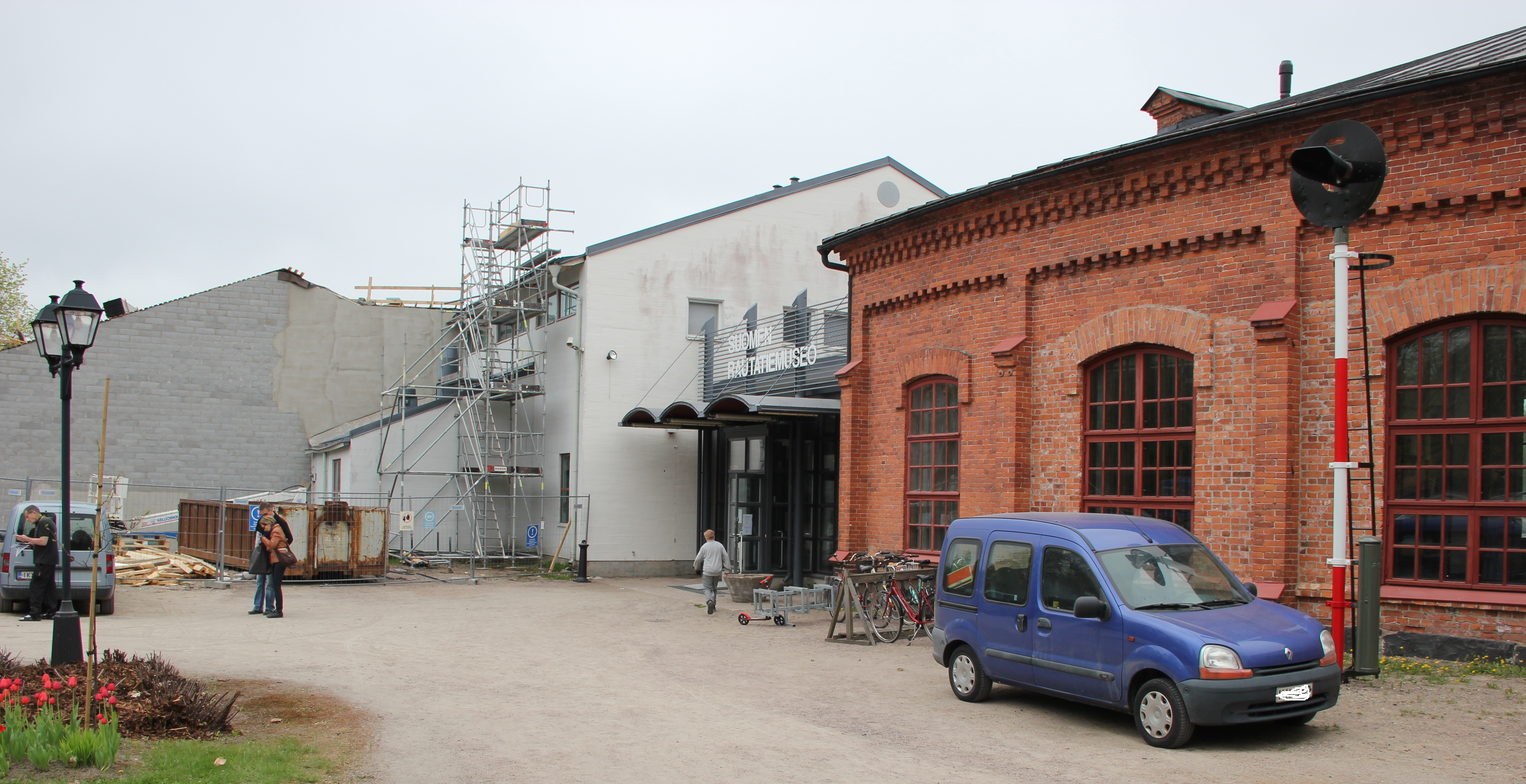 The Railway Museum of Finland, Hyvinkää, Finland in 2013